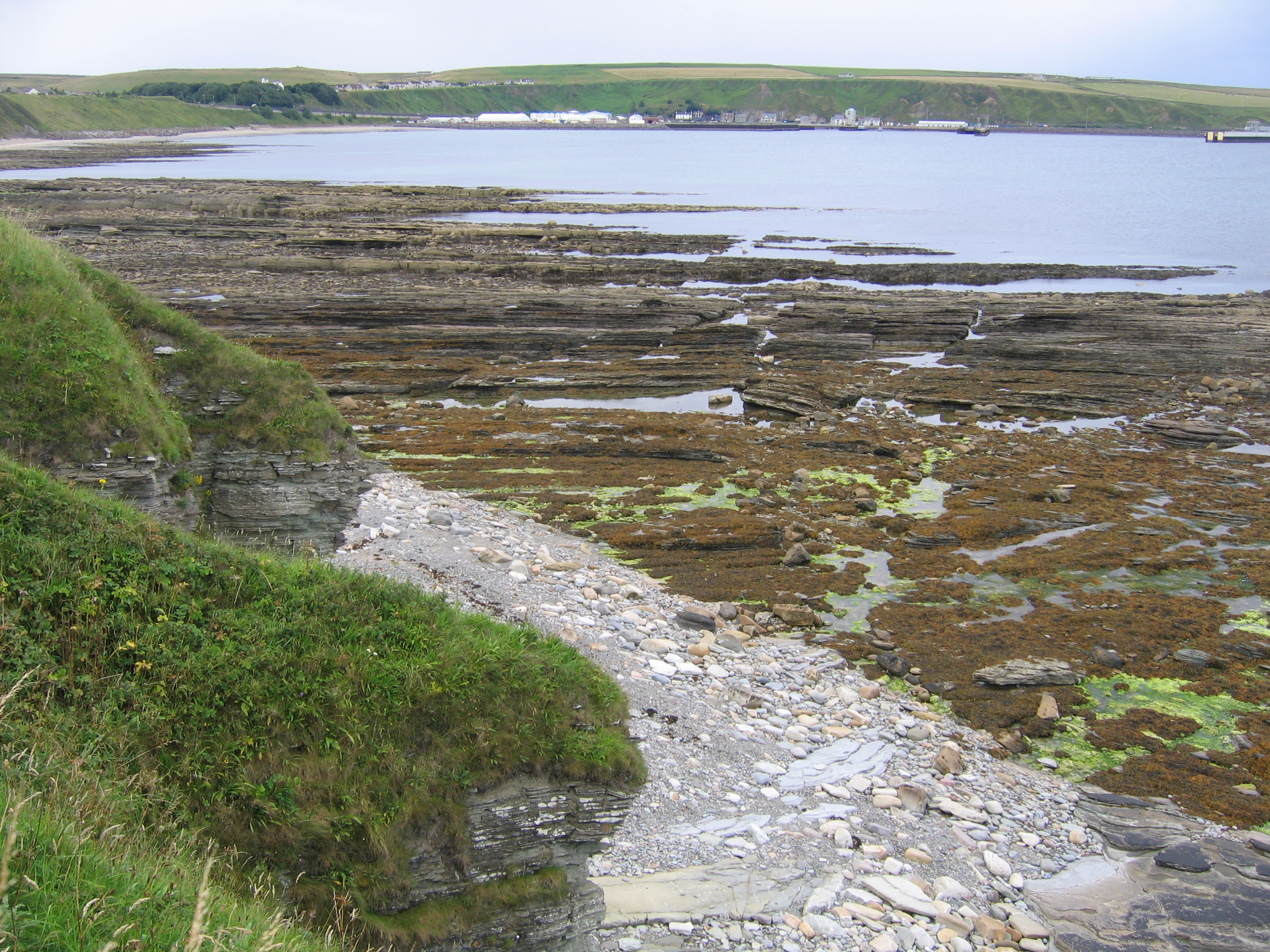 Harbour of Scrabster, Thurso